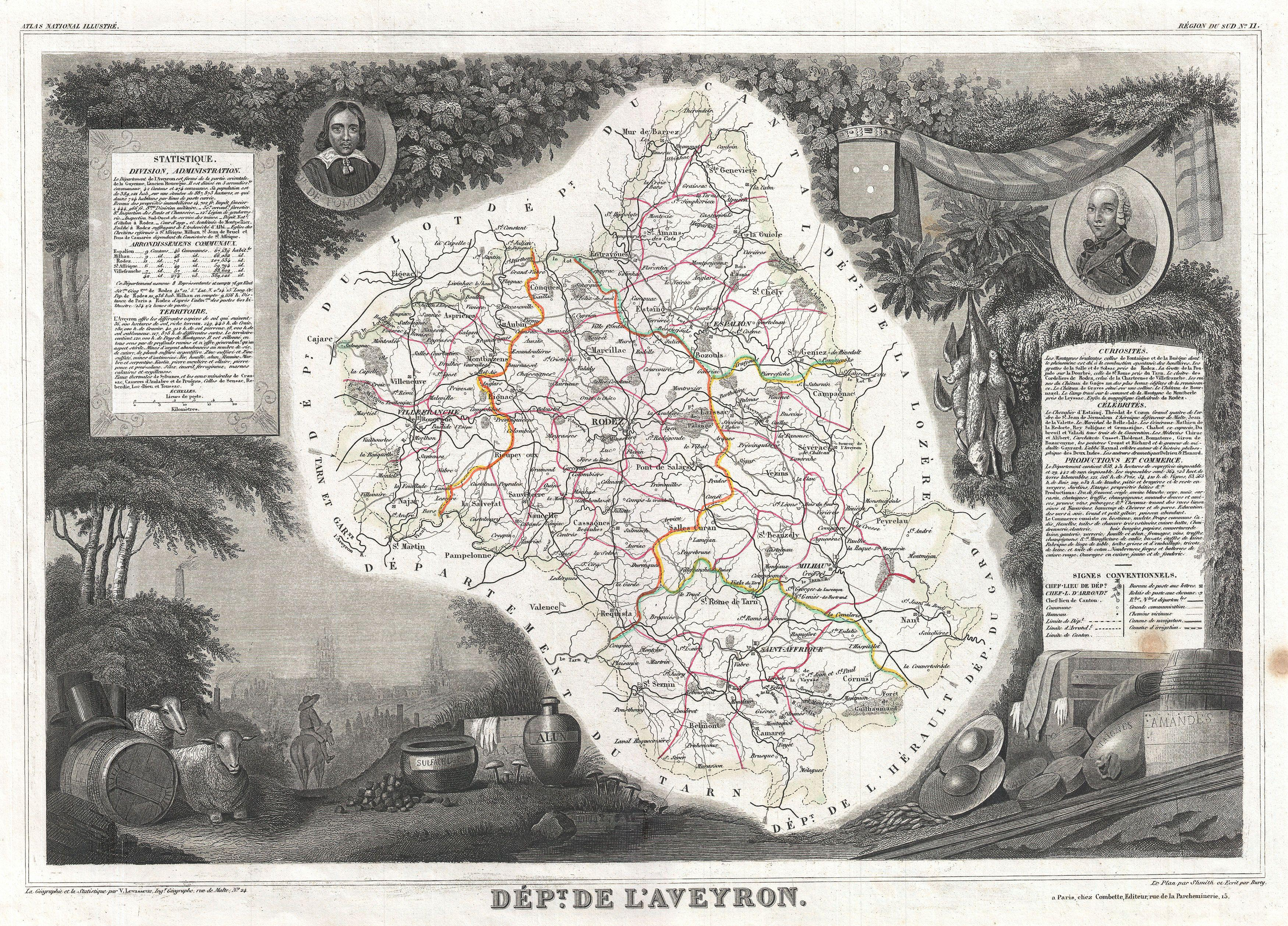 This is a fascinating 1857 map of the French department of Aveyron, France. This area of France, centered on Rodez, is famous for its production of Roquefort, a flavorful ewe's milk blue cheese. This region is also known for the legendary Bete du Gevaudan, a terrible man-wolf who terrorizes the countryside. The Chemin St. Jacques also passes through the northern part of this department. The whole is surrounded by elaborate decorative engravings designed to illustrate both the natural beauty and trade richness of the land. There is a short textual history of the regions depicted on both the left and right sides of the map. Published by V. Levasseur in the 1852 edition of his Atlas National de la France Illustree.